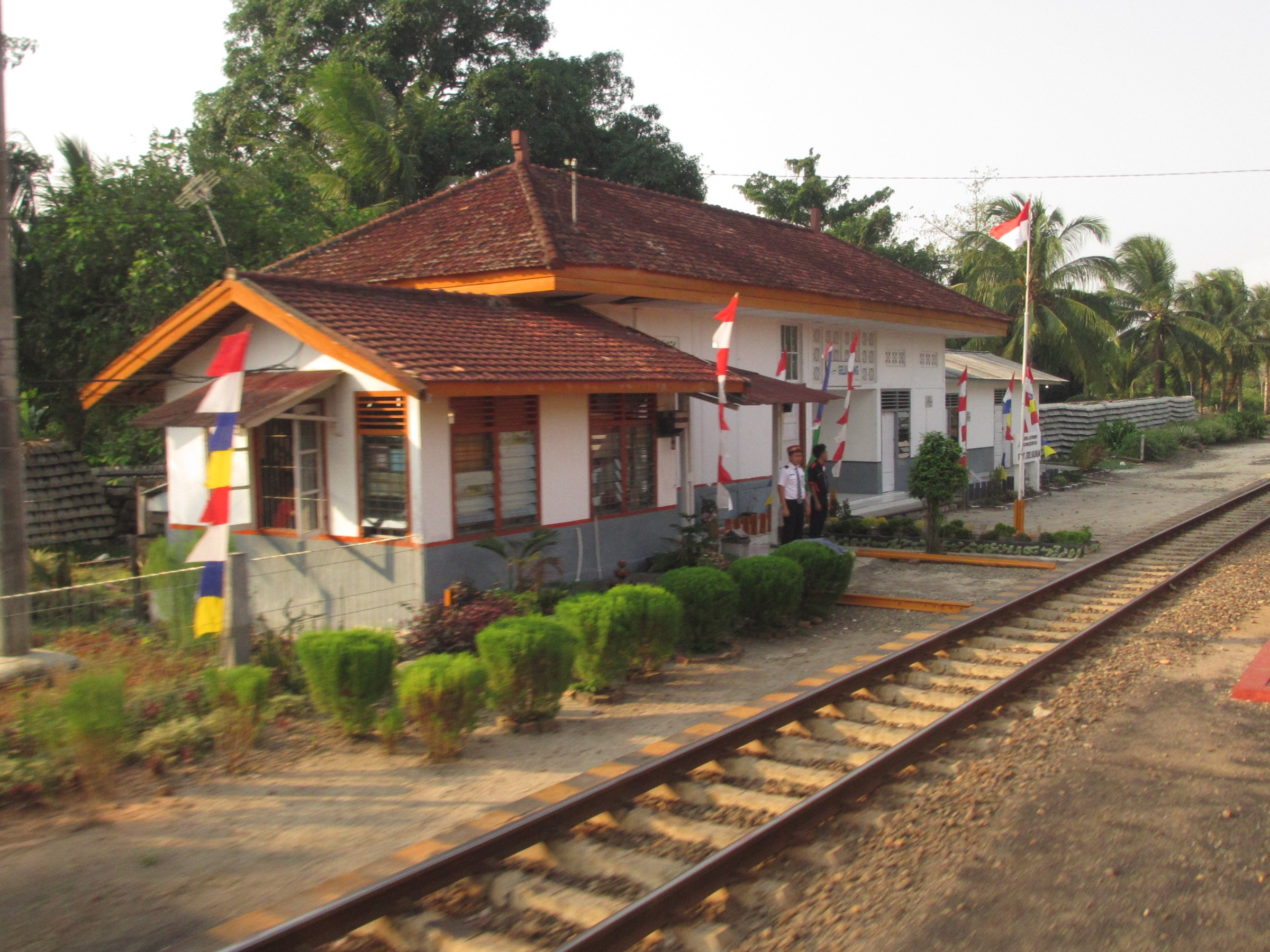 Gelumbang Railway Station.